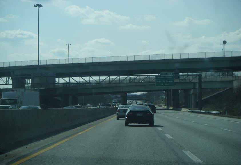 Westbound Pennsylvania Turnpike (Interstate 276) 1/2 mile from the Norristown interchange (exit 333) in Plymouth Meeting, Pennsylvania